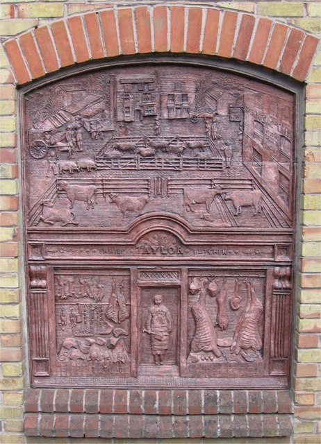 Steven Sykes Sculptured Panel, Cattle Market/Inns/Butcher, Sainsbury's, Drury Lane, Braintree One of three panels in the Drury Lane "Food and Drink" group, many people in Braintree will remember the Cattle Markets in Great Square and Fairfield, with stalls for farmers wives to sell fowls, eggs, butter and cheese between the pens. Round the noisy market were the Inns some of which still stand today. Below is a typical "Family Butcher" proudly displaying home killed meat, game and home cooked sausage, ham and pies. For the background to these panels and the other two in the Drury Lane group, see here: 1411829 1411836 1411840